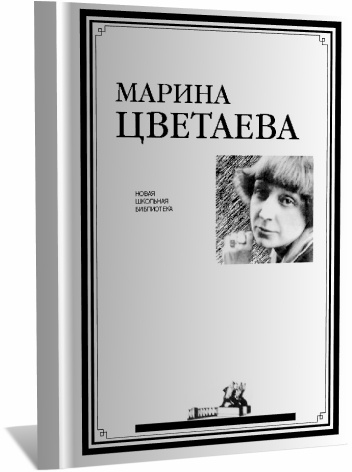 Lyudmila Vagurina, a sequence "Silver Age"